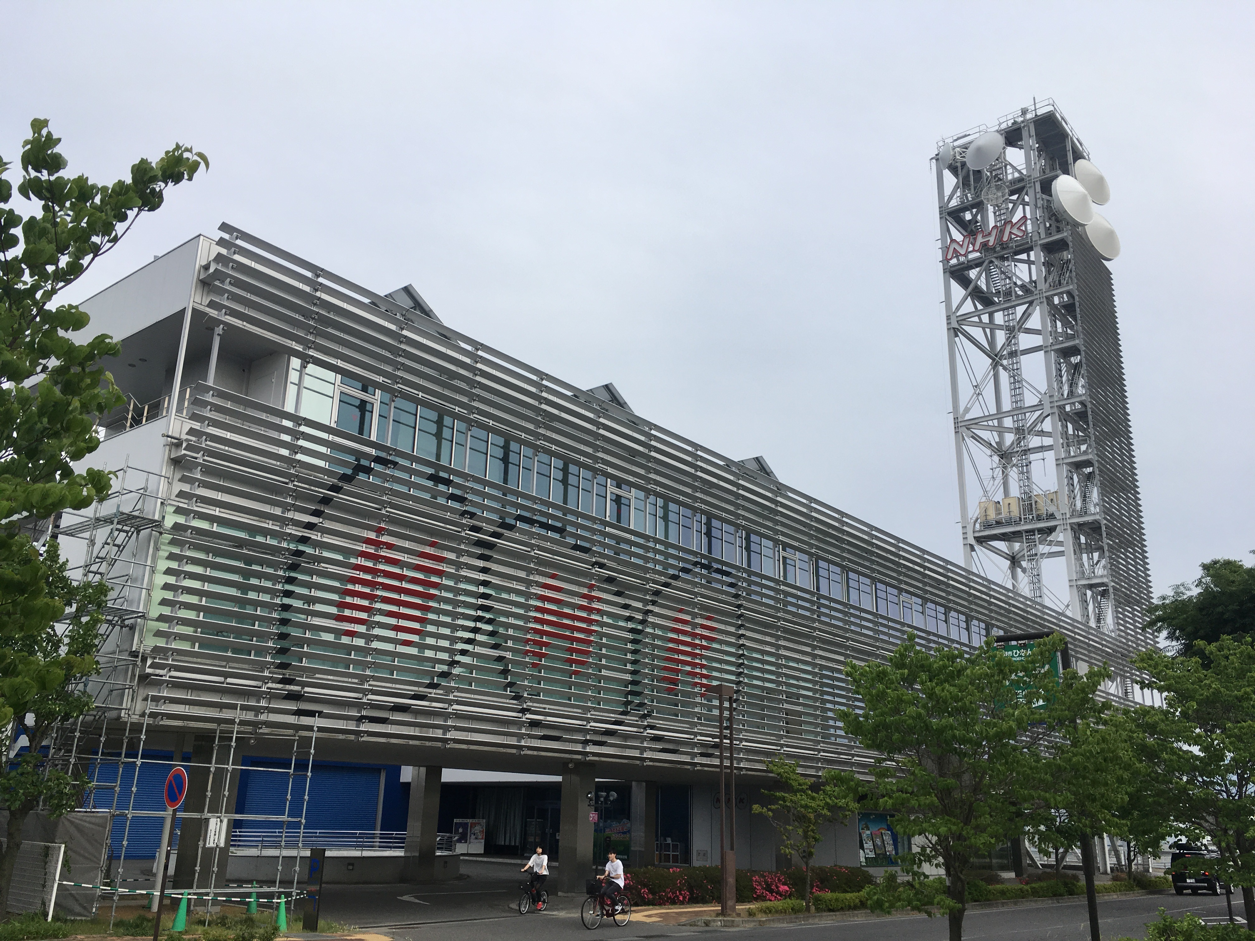 This is a photo of the NHK Studio in the Wakasato District of Nagano City, Nagano.